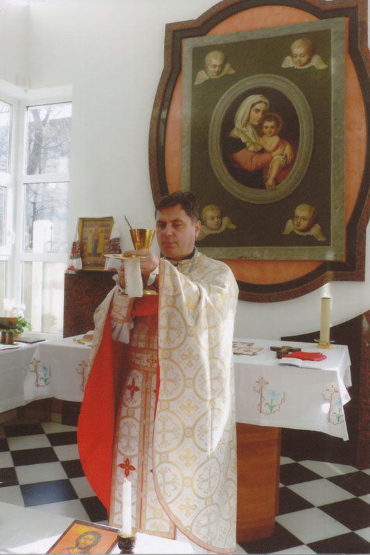 Greek Catholic Church of Chisinau.